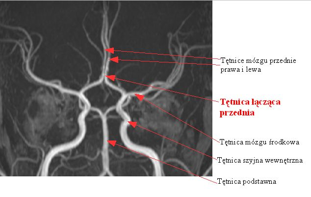 Anterior communicating artery